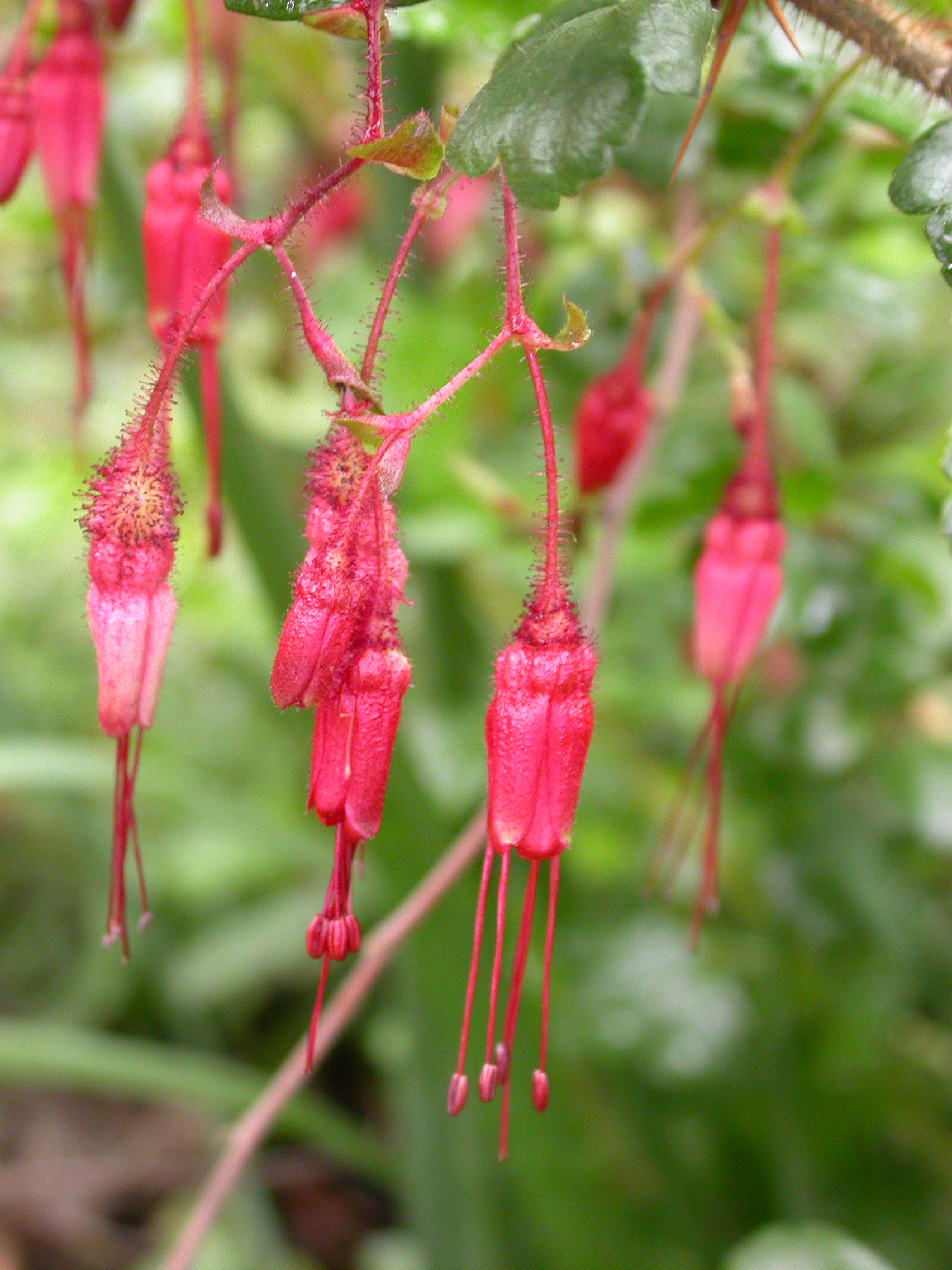 Photographed at BioTrek. Contributed and © by Curtis Clark. Licensed as noted.